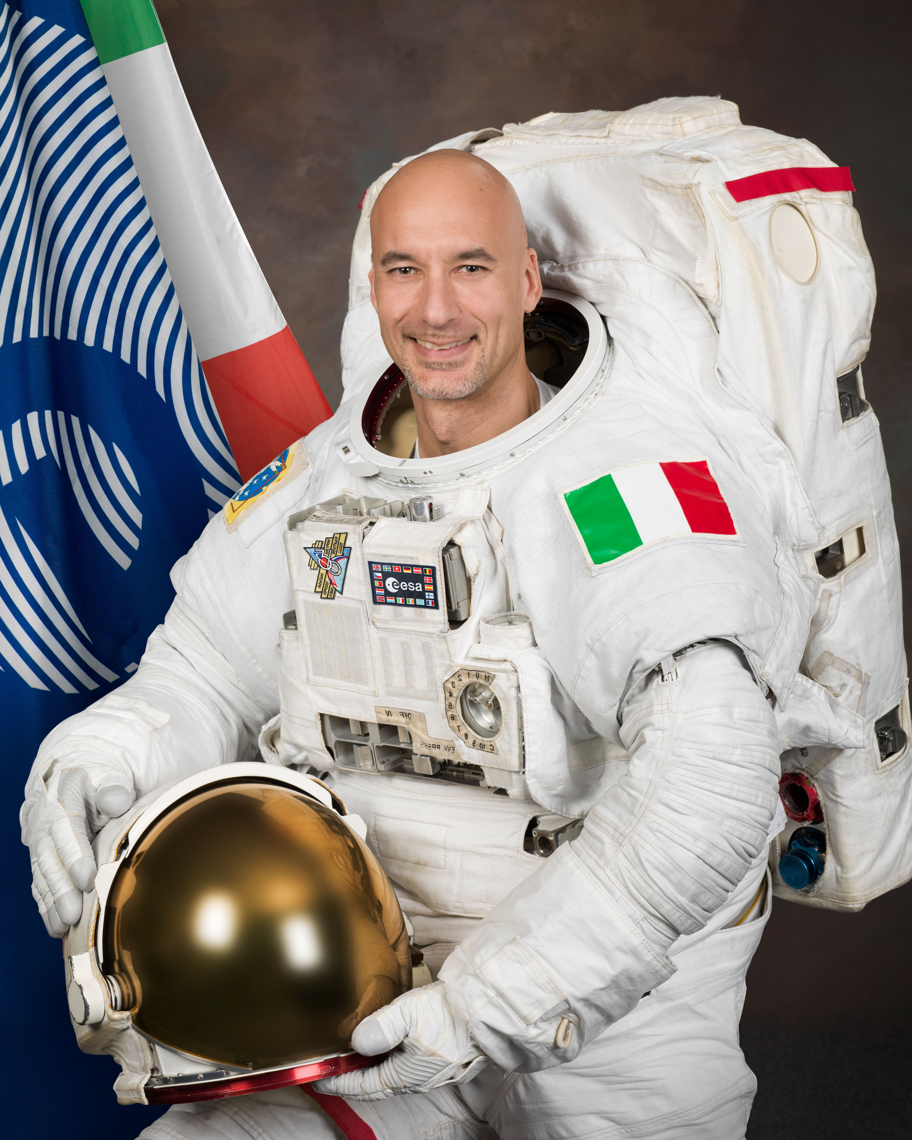 European Space Agency astronaut Luca Parmitano, attired in an Extravehicular Mobility Unit (EMU) spacesuit.